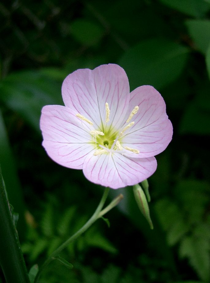 Oenothera speciosa